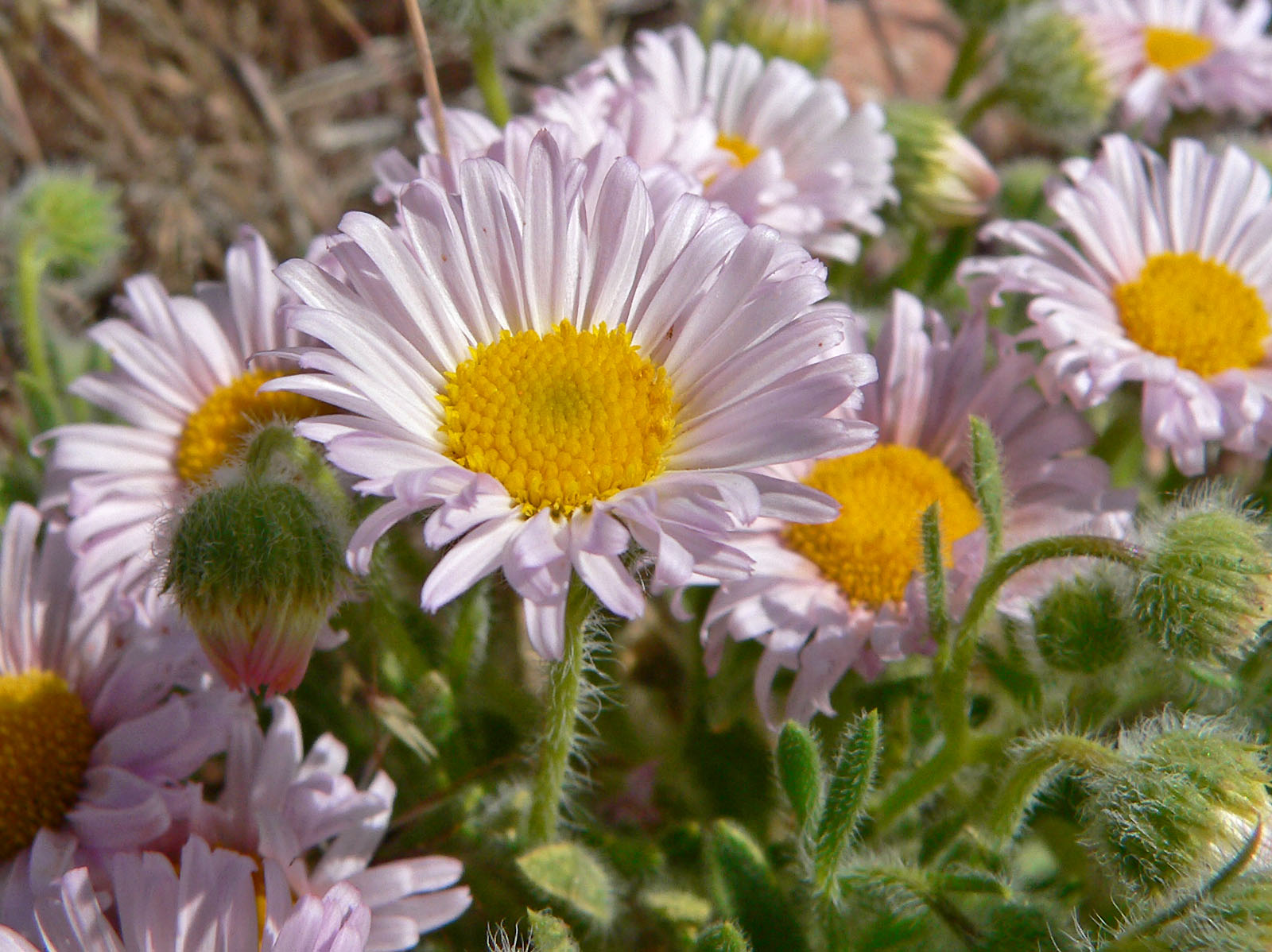 Photo of Erigeron concinnus (tidy fleabane) in Calico Basin west of Las Vegas, Nevada